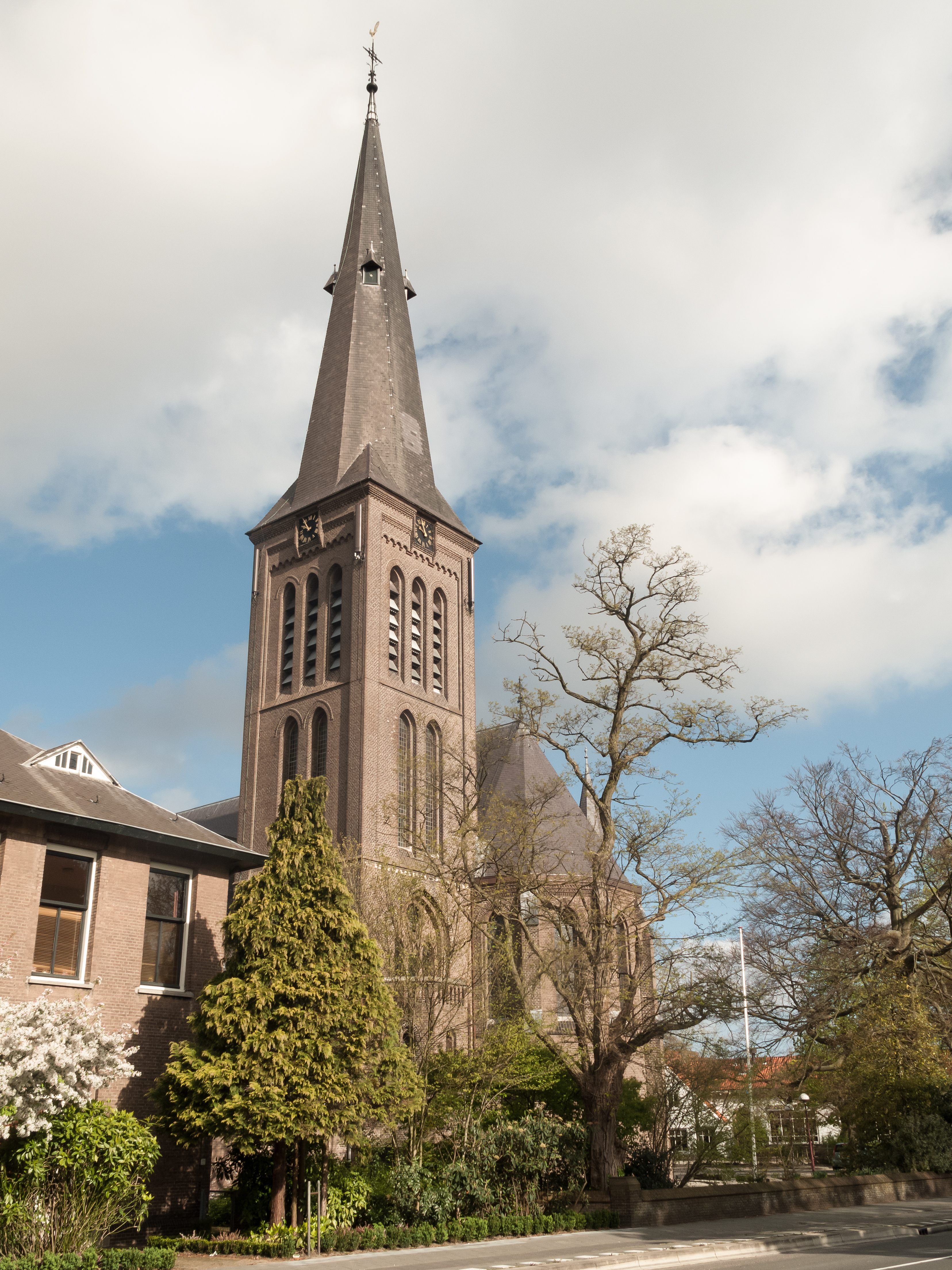 Oegstgeest, clergy house